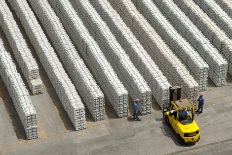 Aluminium Bahrain (Alba) production